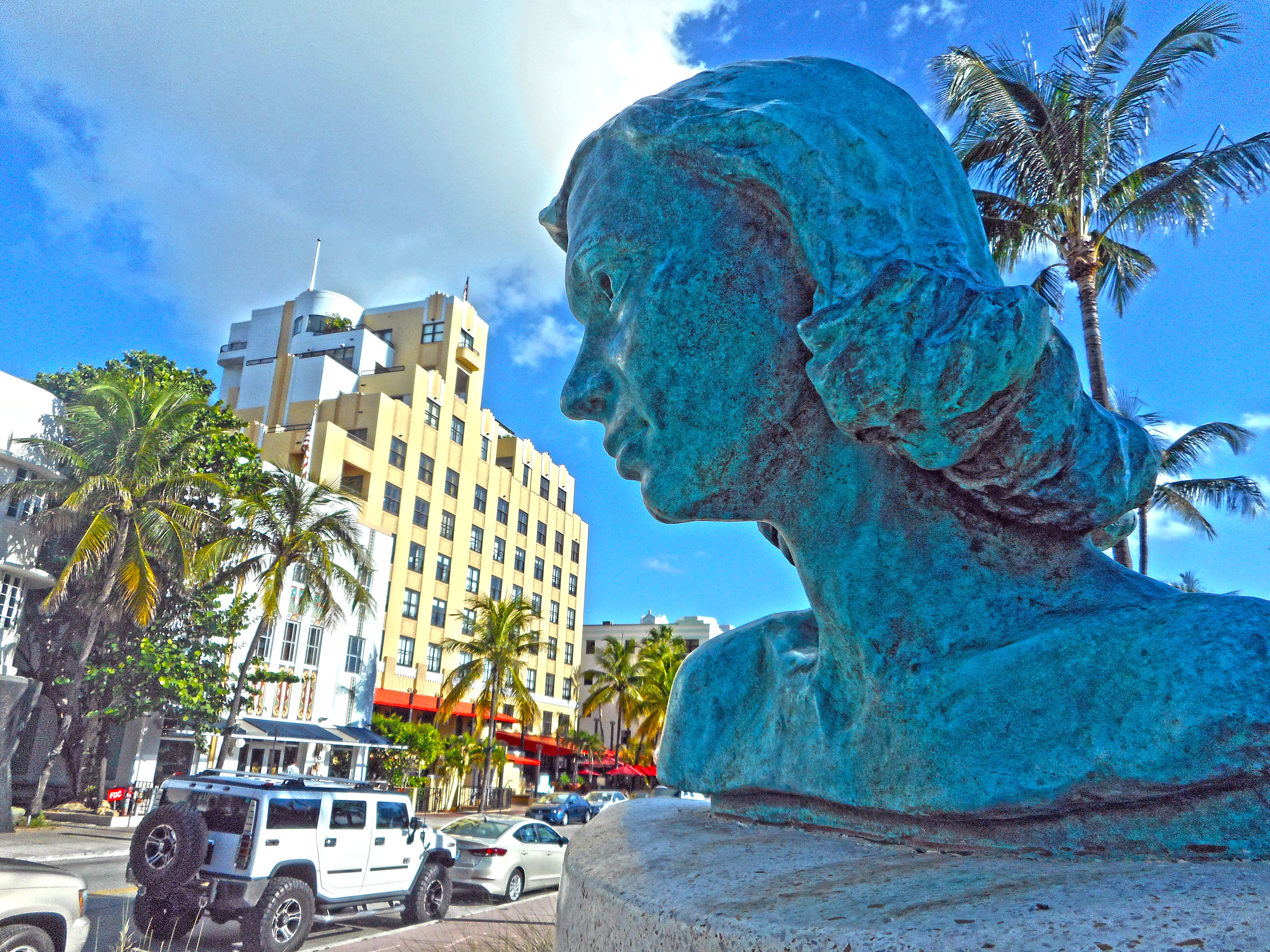 Barbara Capitman bust in Lummus Park, South Beach